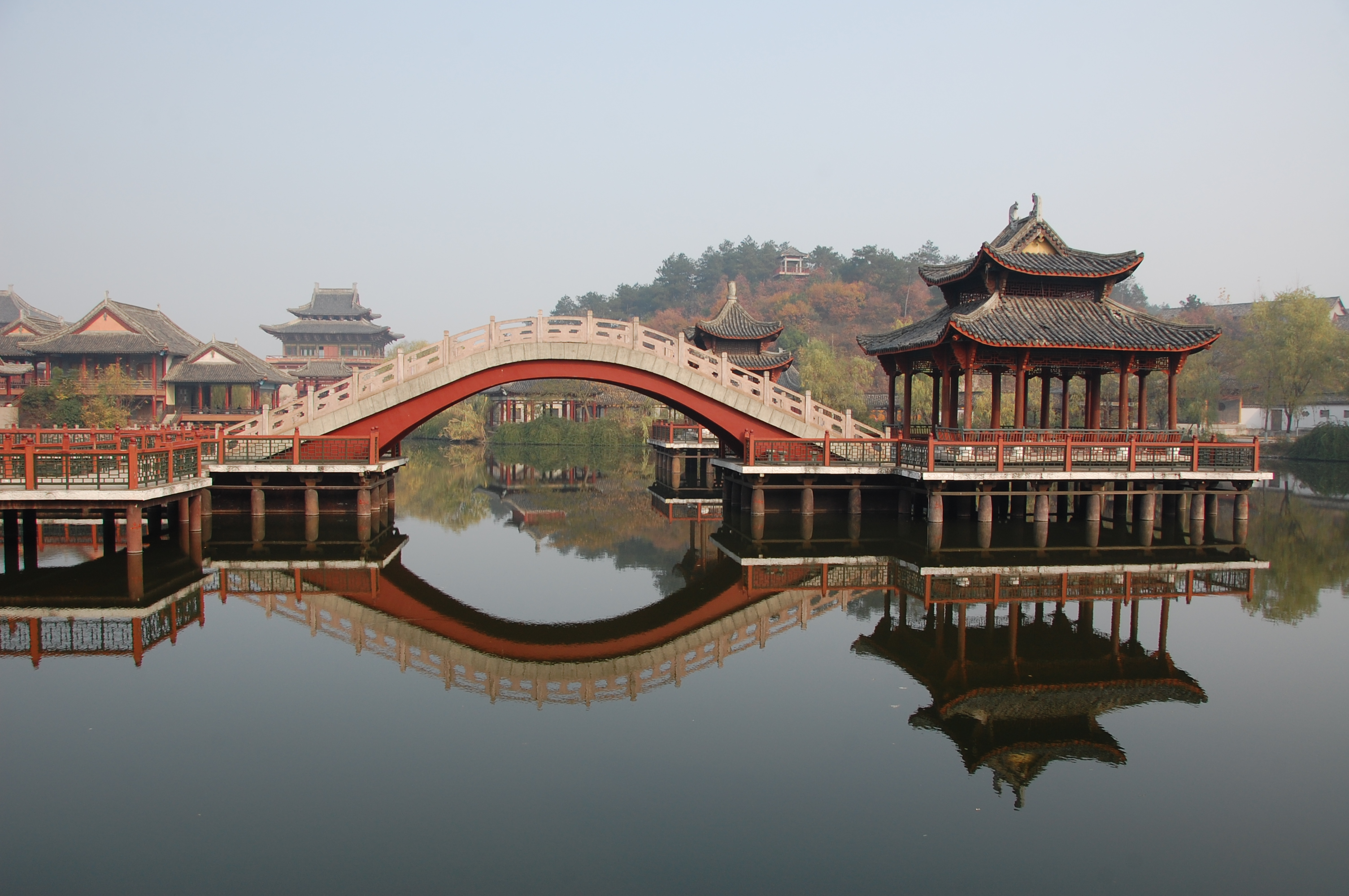 A material reconstitution of the cityscape depicted in the scroll Along the River During the Qingming Festival, at Hengdian World Studios